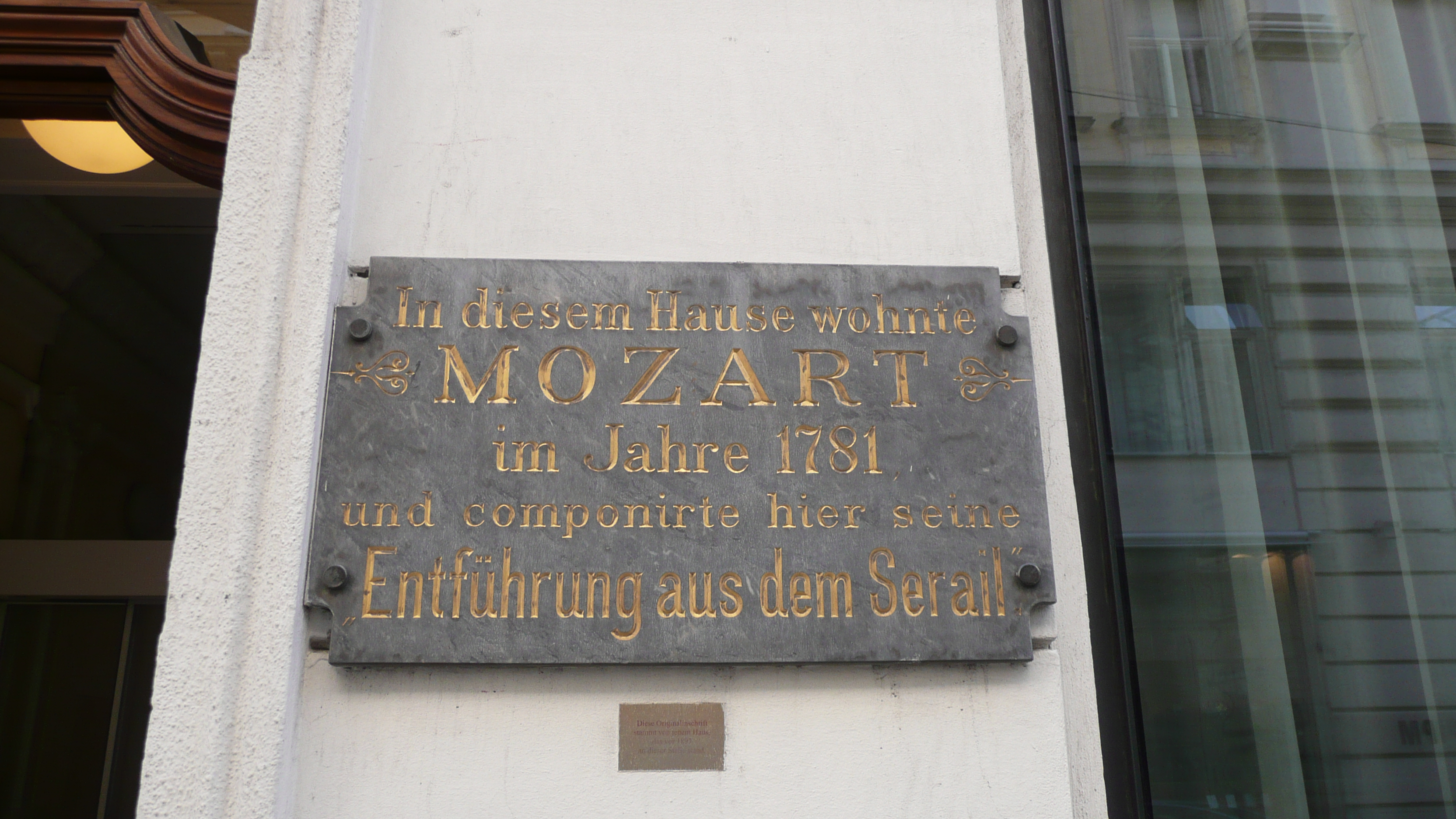 Memorial plaque to Mozart on House No. 1 Milchgasse in Vienna, commemorating him composing "Die Entfuehrung aus dem Serail" here.